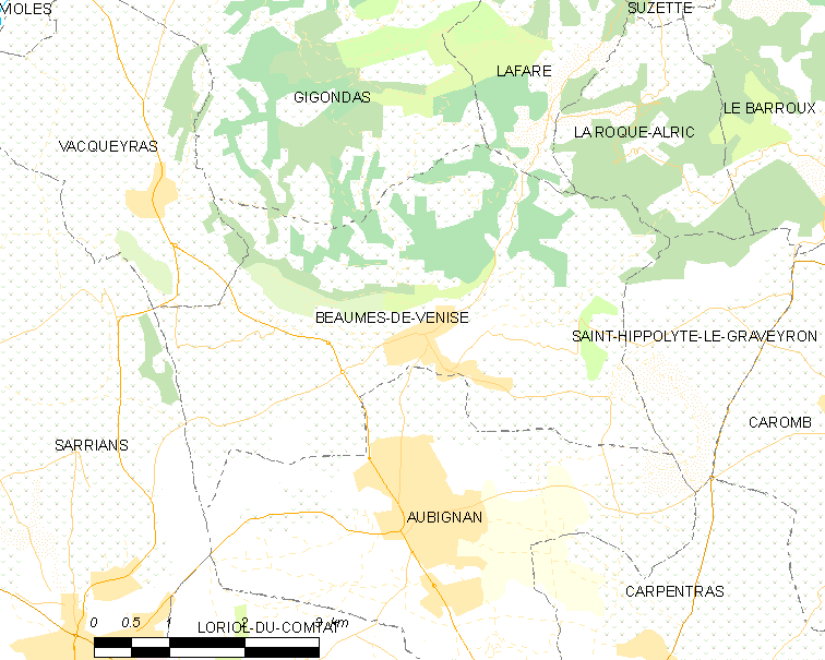 Map of French municipality Beaumes-de-Venise